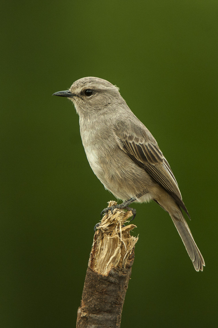 Pale Flycatcher - Kenya_IMG_4603